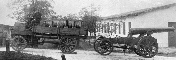 First truck of the Austro-Hungarian Army in 1899 with 12 cm Gun M80